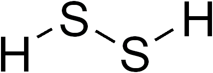 chemical structure of hydrogen disulfide (disulphide)